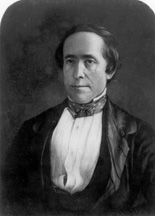 Image of Charles G. Atherton